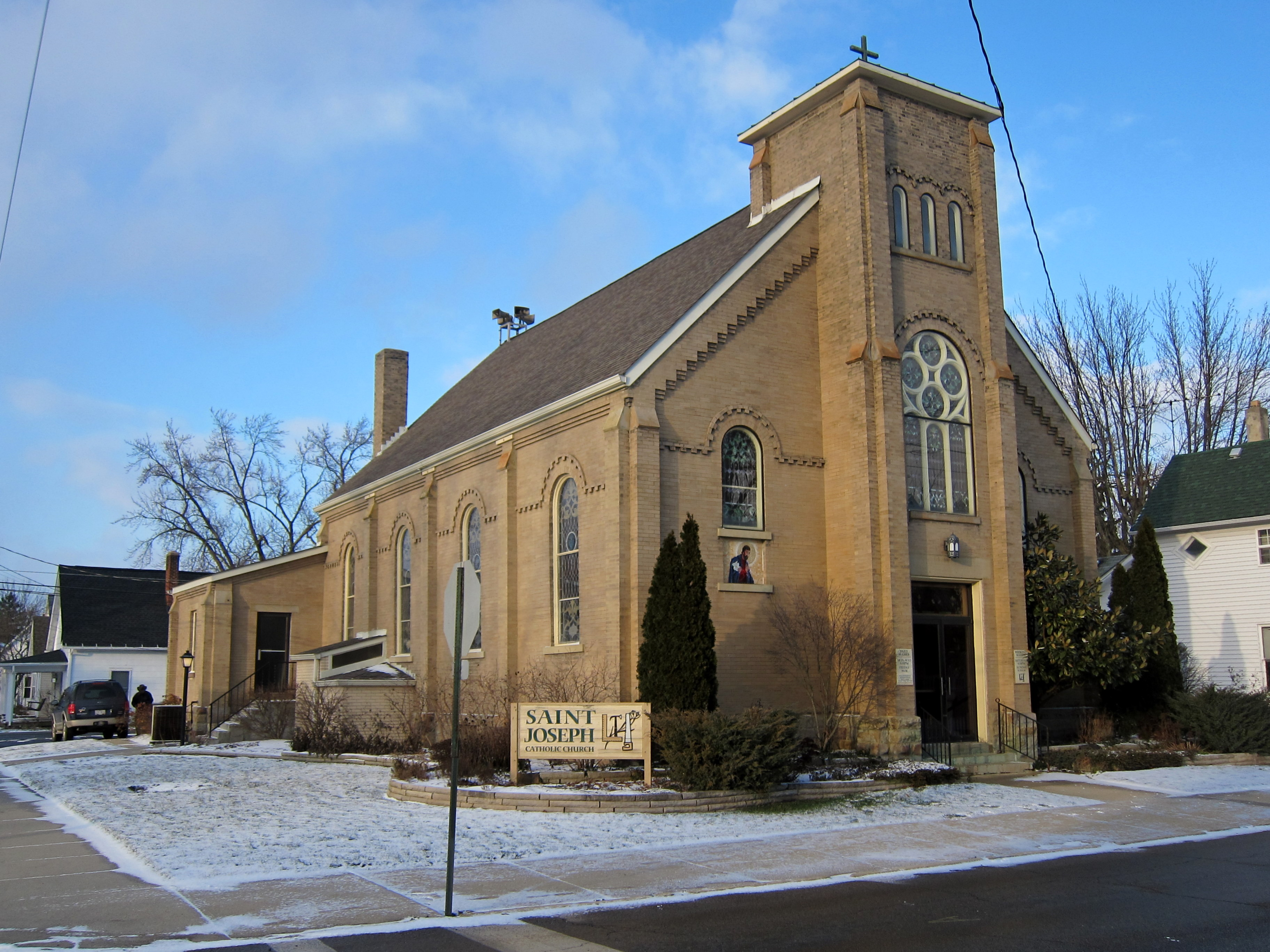 St. Joseph Catholic Church (Plain City, Ohio), exterior